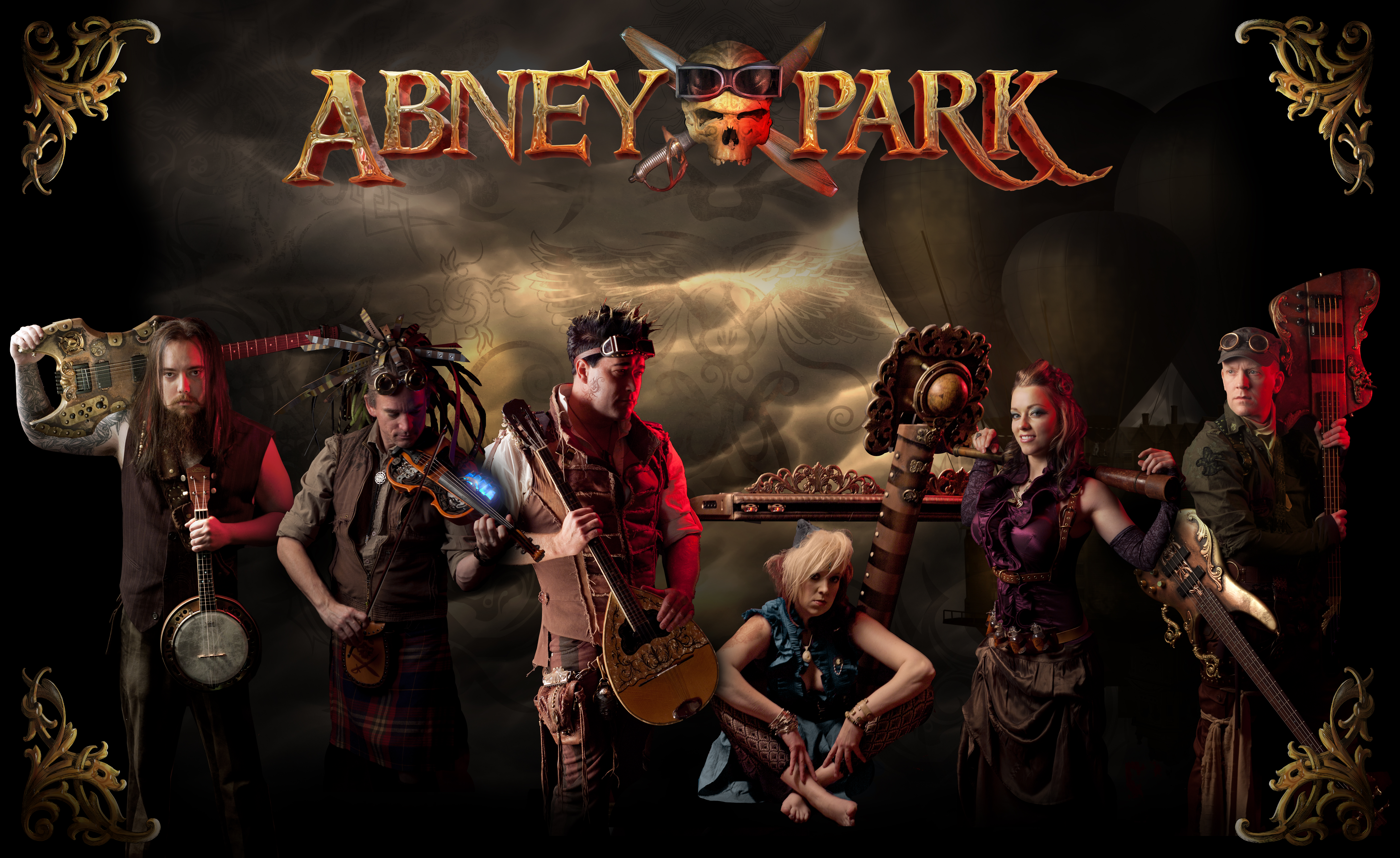 Promotional photograph of the band Abney Park.